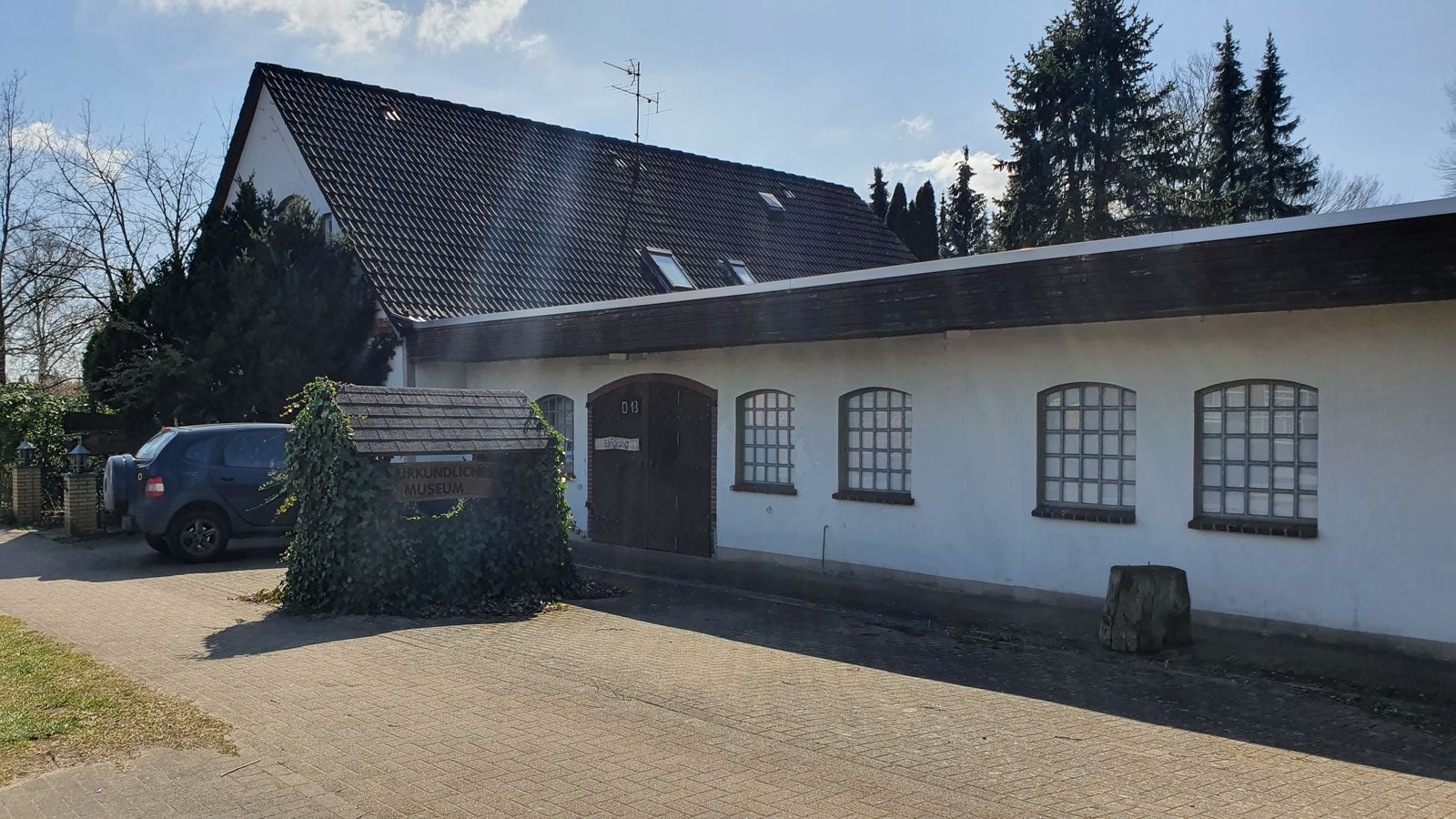 Naturkundliches Museum Handeloh